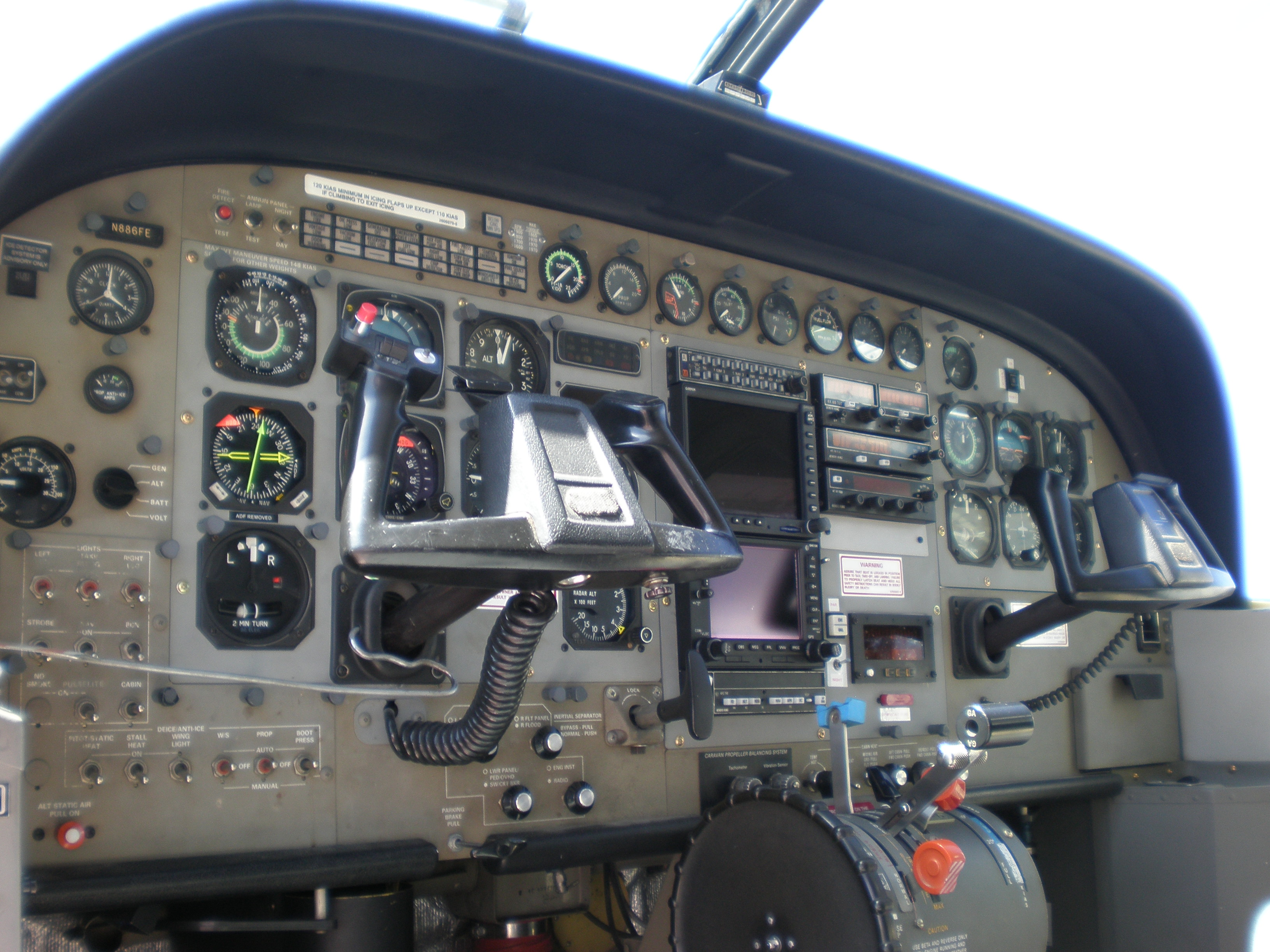 The cockpit of a FedEx Cessna 208B Grand Caravan at the Pacific Coast Dream Machines vehicle show at the Half Moon Bay Airport in Half Moon Bay, California.